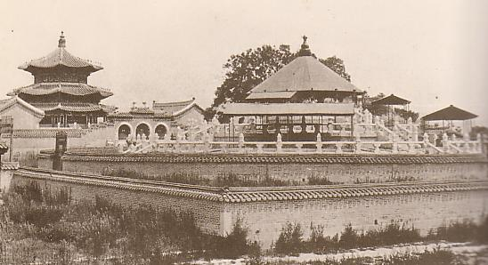 Hwankudan